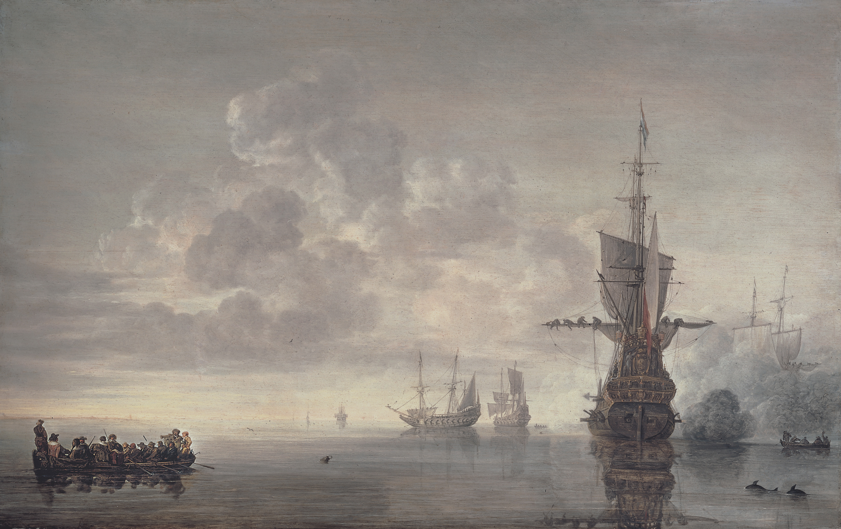 The flagship Aemilia fires a salut for Admiral Maerten Harpertsz. Tromp 1640